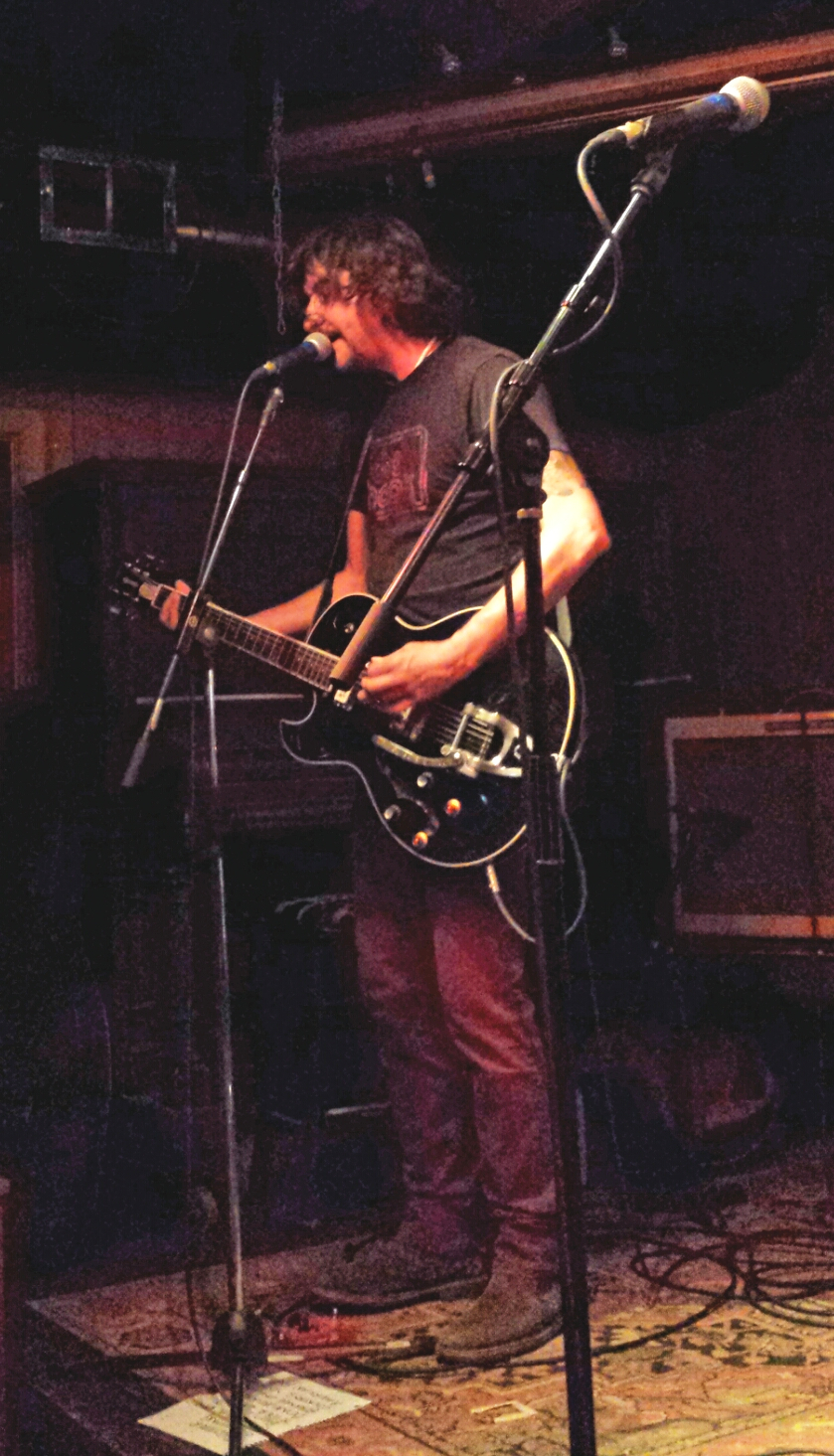 Phil Wandscher performing with Bad Luck Johnathan at the Hideout, Chicago, IL on 2015.07.31